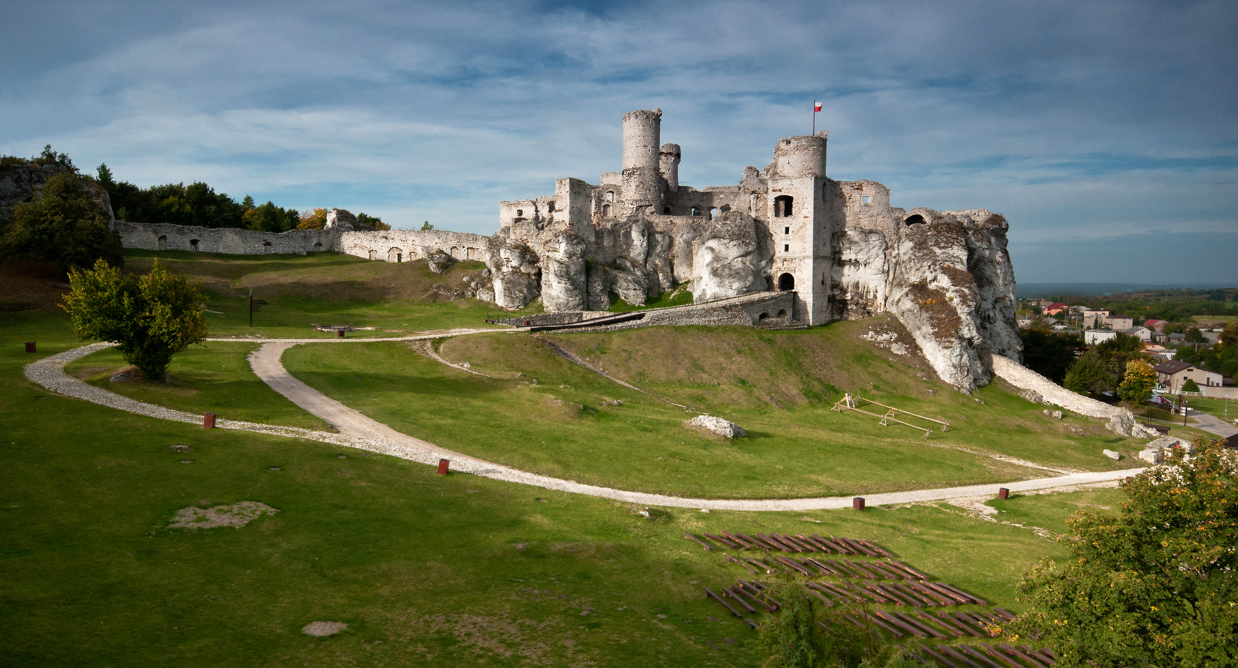 Castle ruins in Ogrodzieniec, Śląskie Province, Poland.